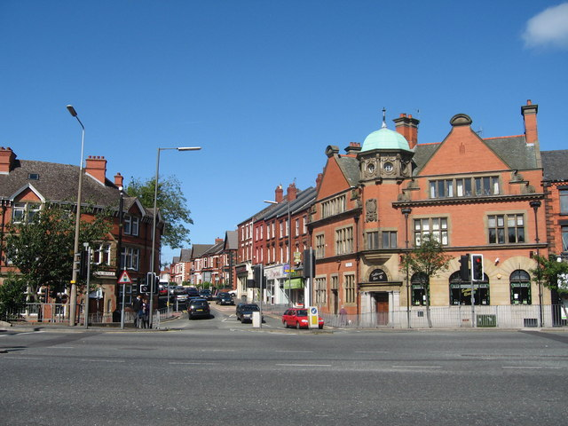 Former Barclay's bank building (on right hand side), on Aigburth Rd, Liverpool